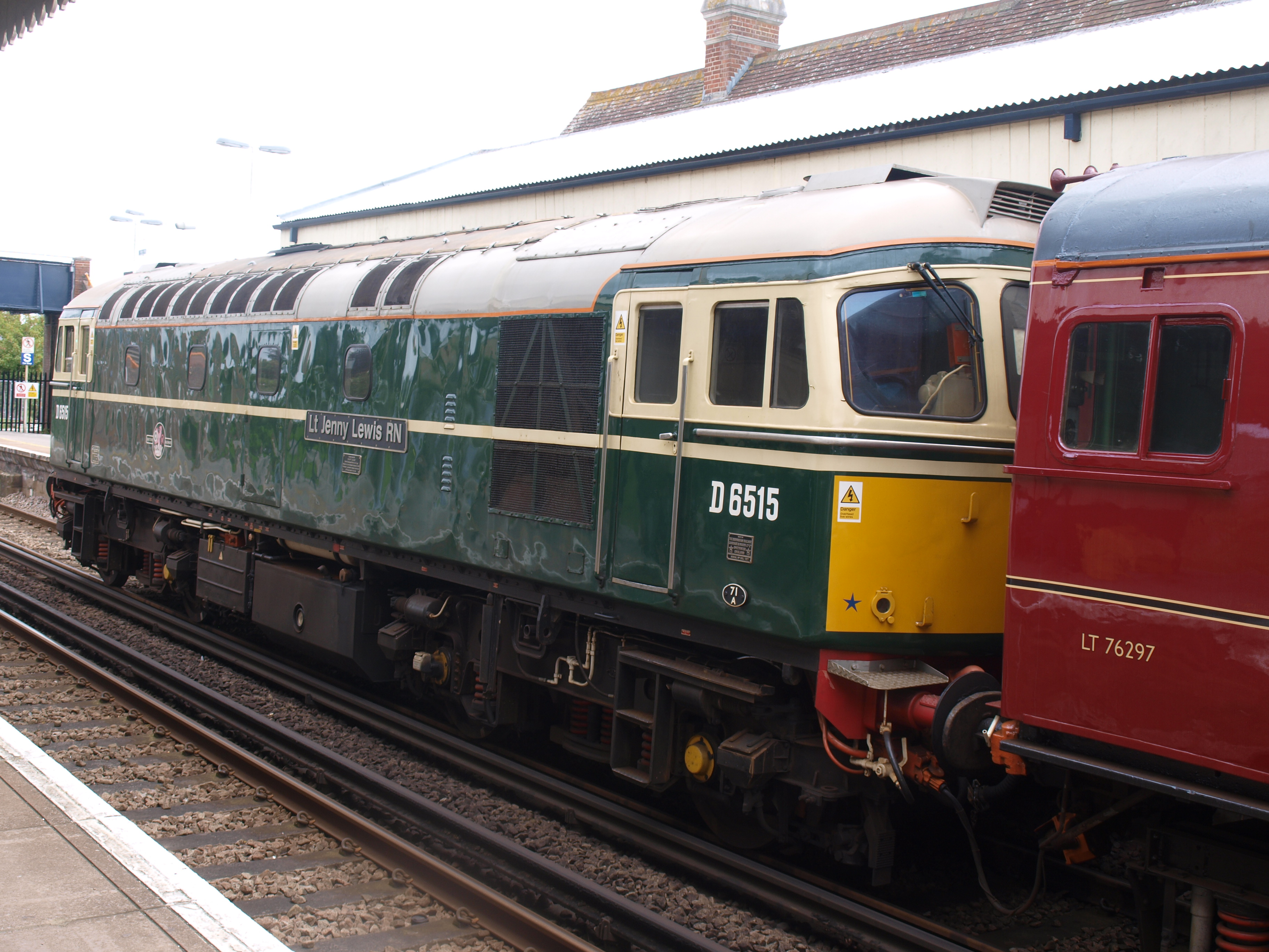 D6515 at Wareham on a train to Swanage, 24 August 2017